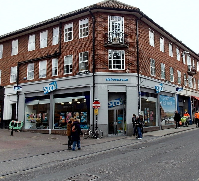 STA Travel in Oxford